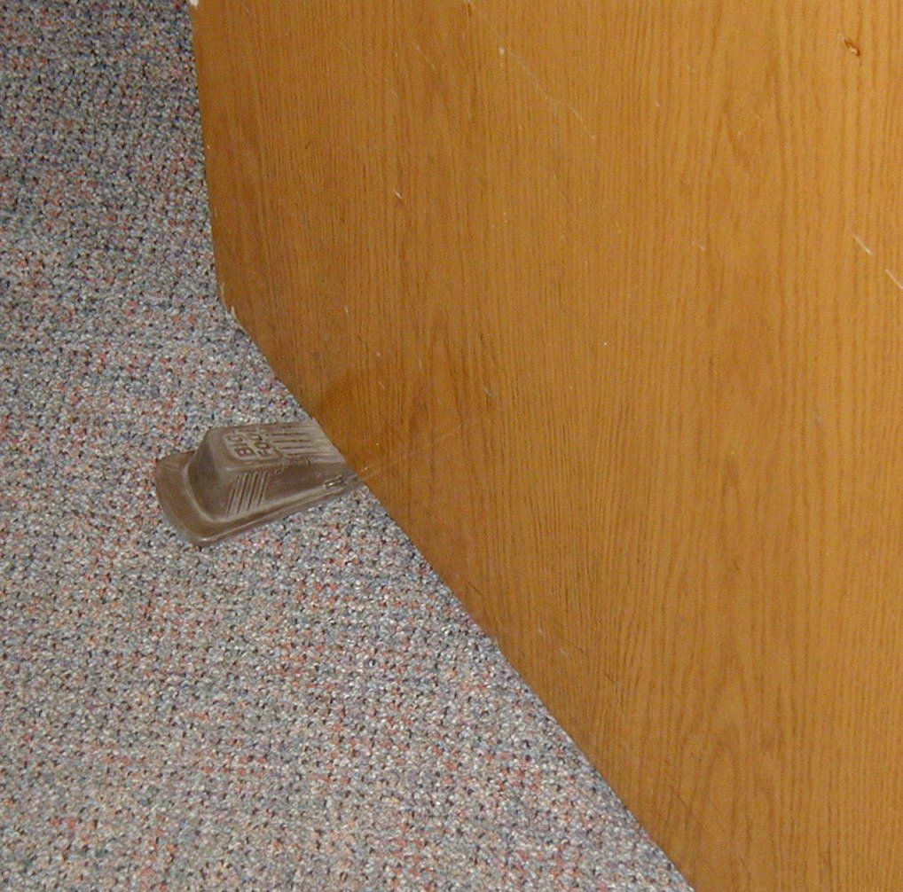 Rubber doorstopper. I took this picture and am releasing it into the public domain.